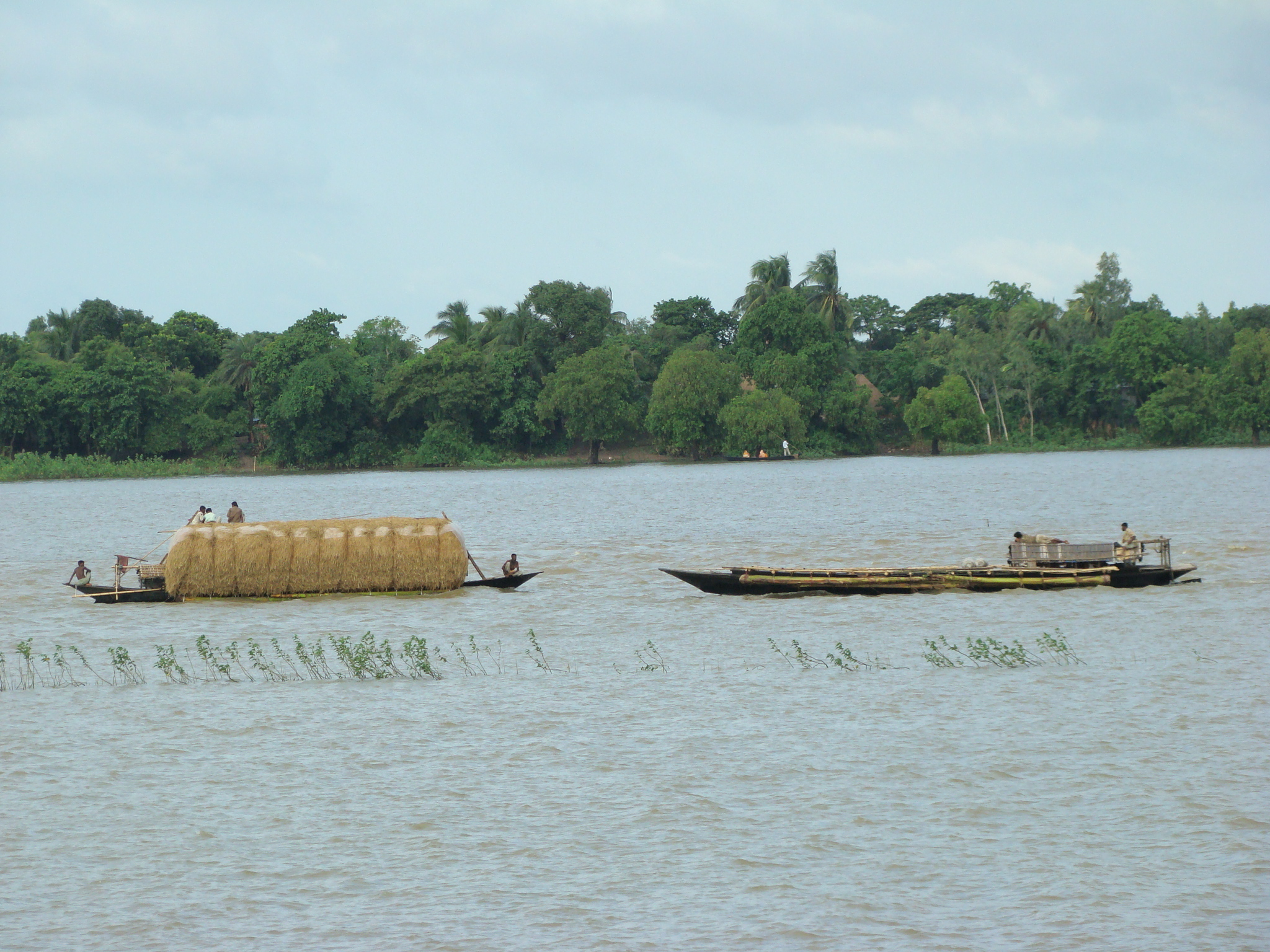 Chalan Beel Natore Bangladesh